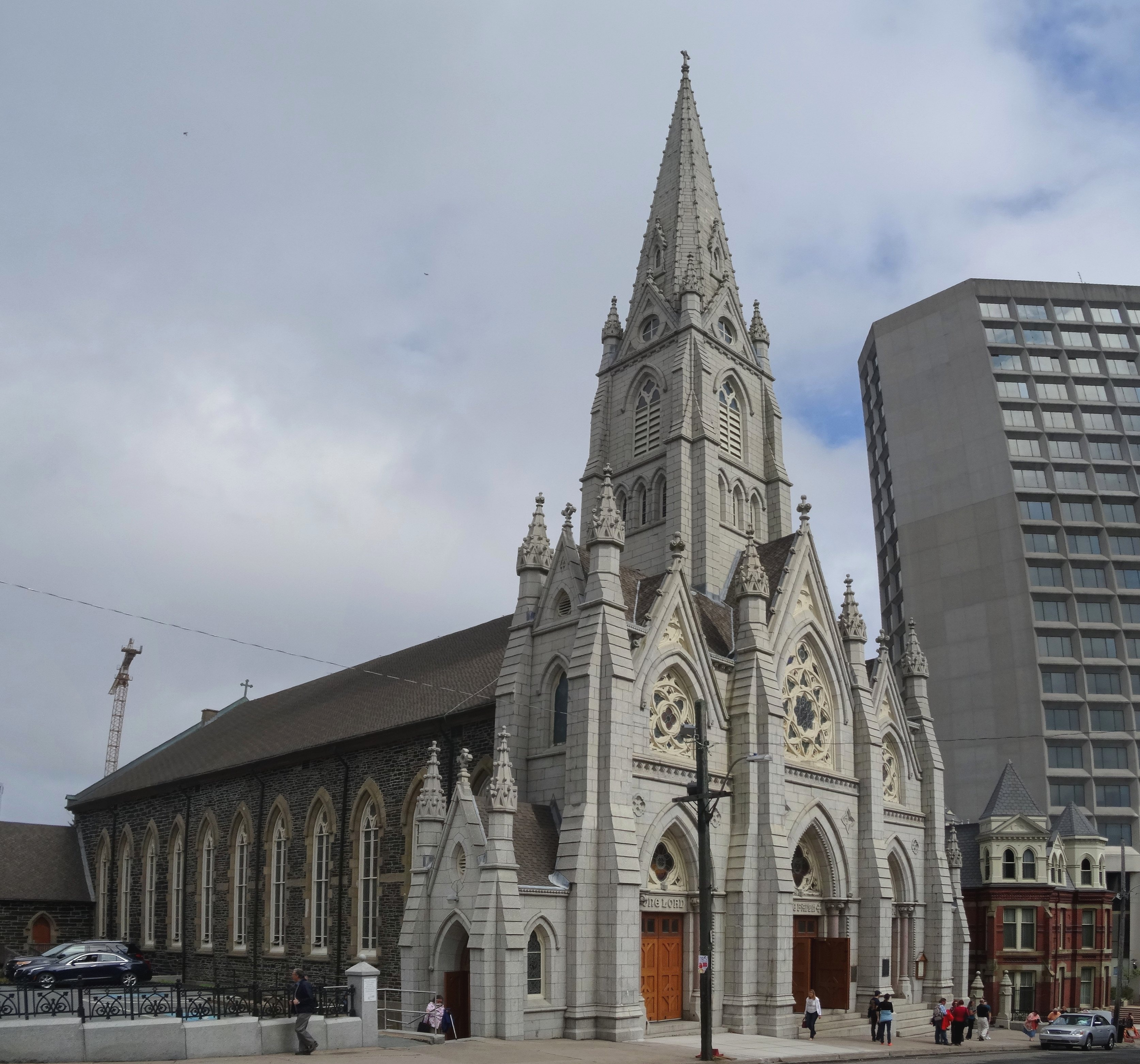 St. Mary's Basilica (Halifax) with granite tower. Founded as the first Catholic Church in Halilax in 1784.